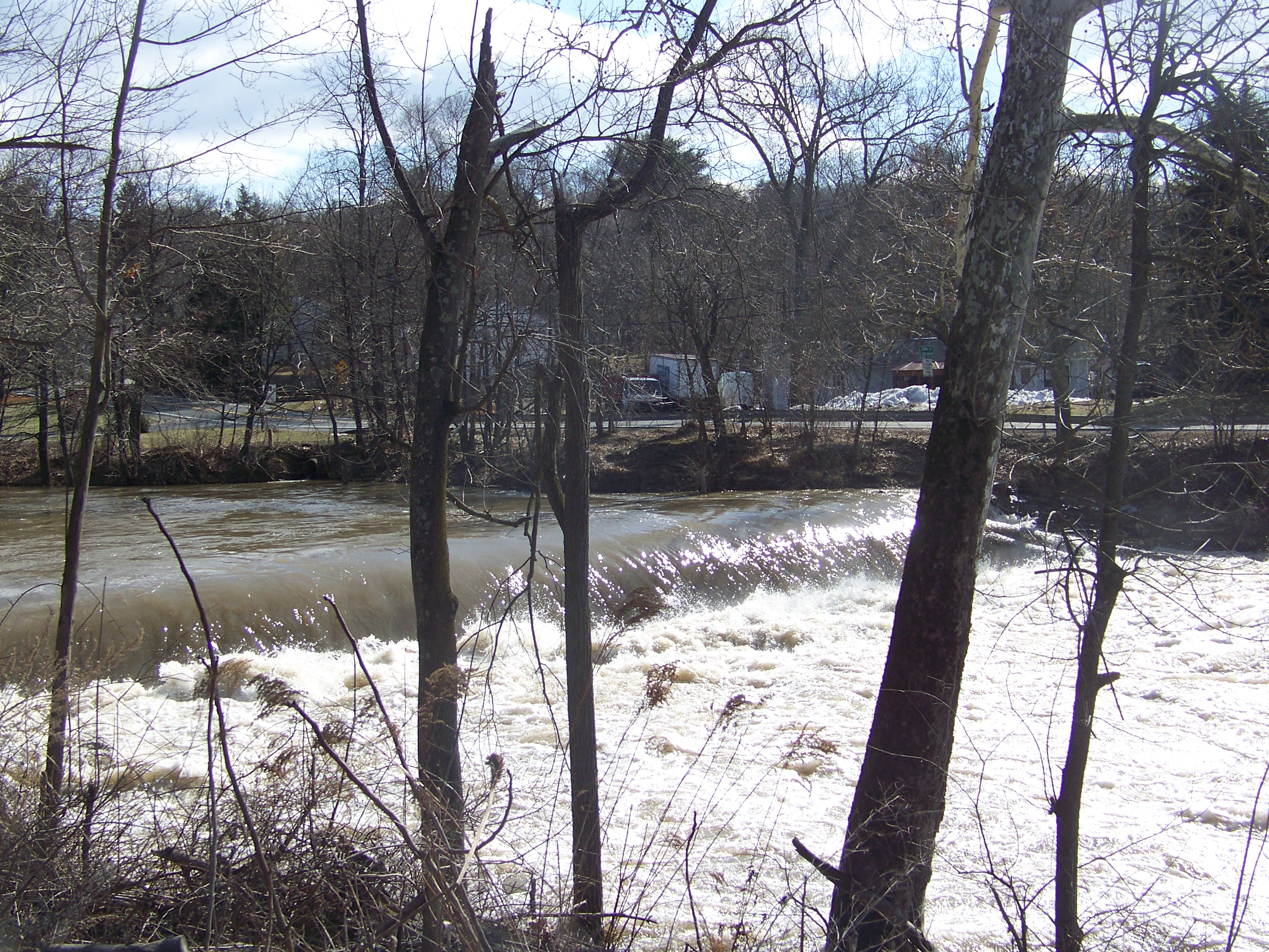 A waterfall along the Wappinger Creek in the hamlet of Red Oaks Mill, New York.